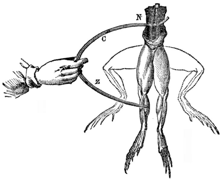 Luigi Galvani discovered that frog's legs twitch when electricity is passed through the muscles, a phenomenon called galvanism that lead to the subject of electrophysiology and treatment by electrotherapy.